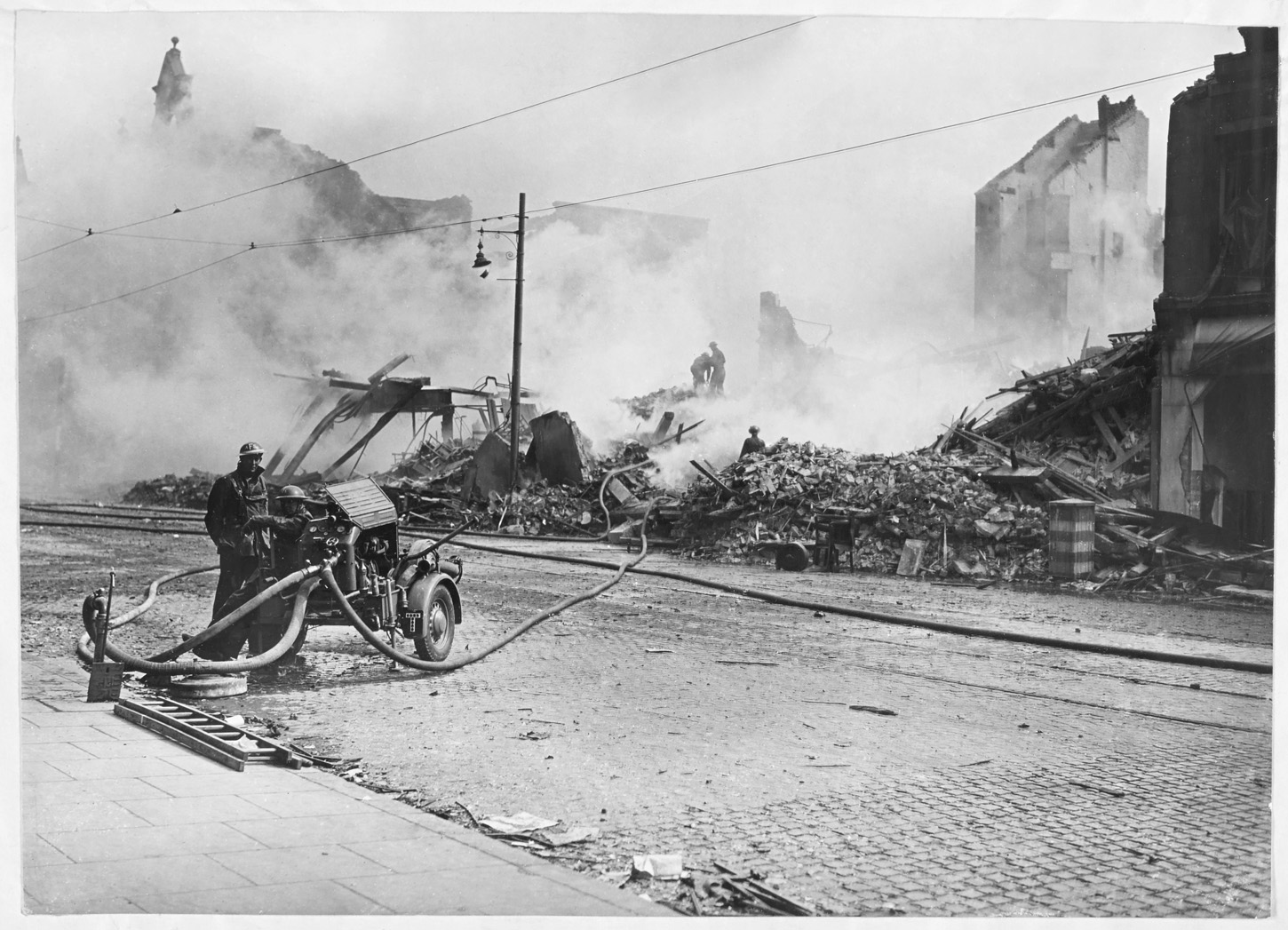 Photographs from a report compiled by the Ministry of Public Security on the air raids on Belfast and their aftermath. Creator: Ministry of Public Security, records of the Cabinet Secretariat Date: 1941 Original Format: Photographic print Description: A.F.S. in York Street, Belfast - April 17th 1941 PRONI Ref: CAB/3/A/68/A For Copy Orders, contact: For fees and charges